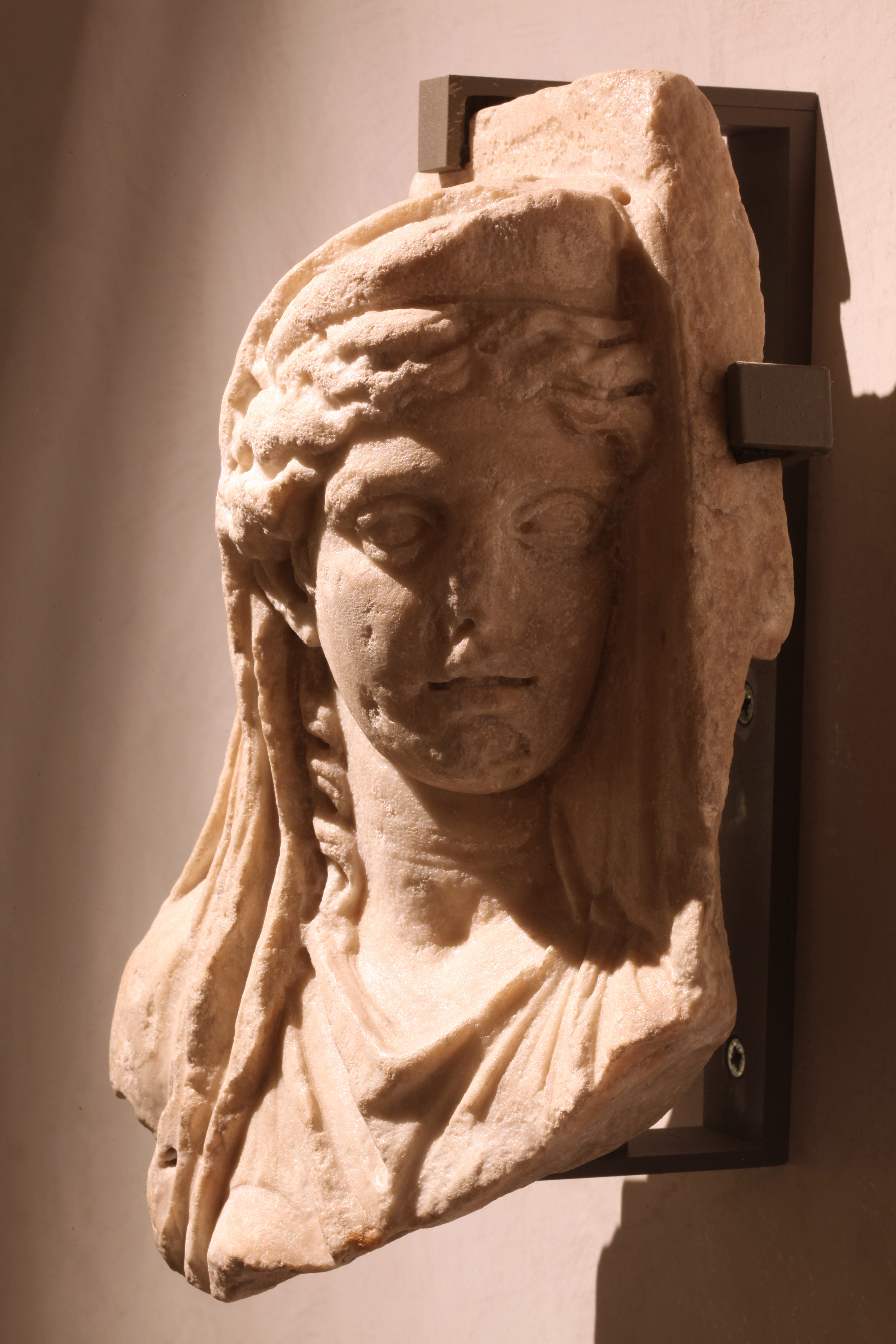 Head of a veiled young woman. Possibly part of a sarcophagus.